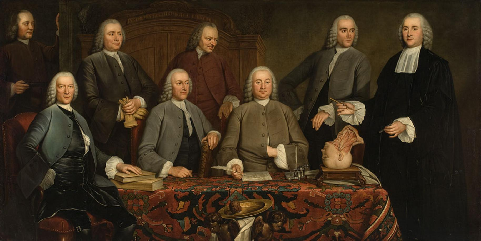 The Anatomy lesson of the city surgeon Petrus Camper in Amsterdam; with Petrus Camper, Loth Lothz, Pieter Jas, Coenraad Nelson, Nicolaas van der Meulen, Abraham Richard, Johannes Stijger, Gerrit van der Weert (far left the servant Van der Weert)